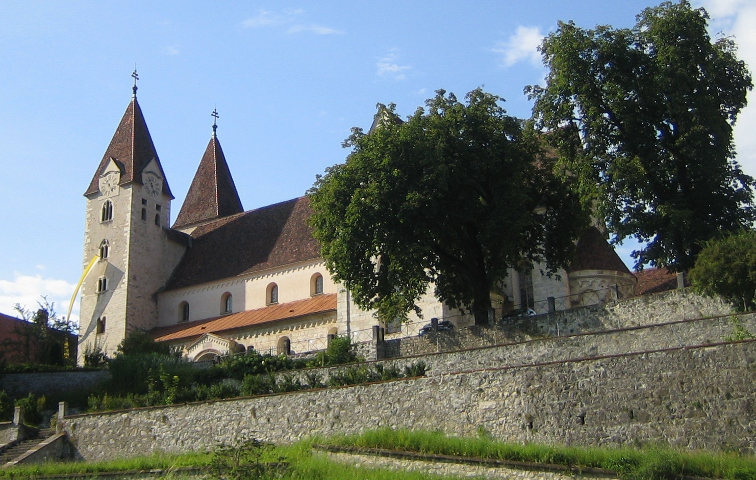 Monastery church St. Paul im Lavanttal, view from south-east